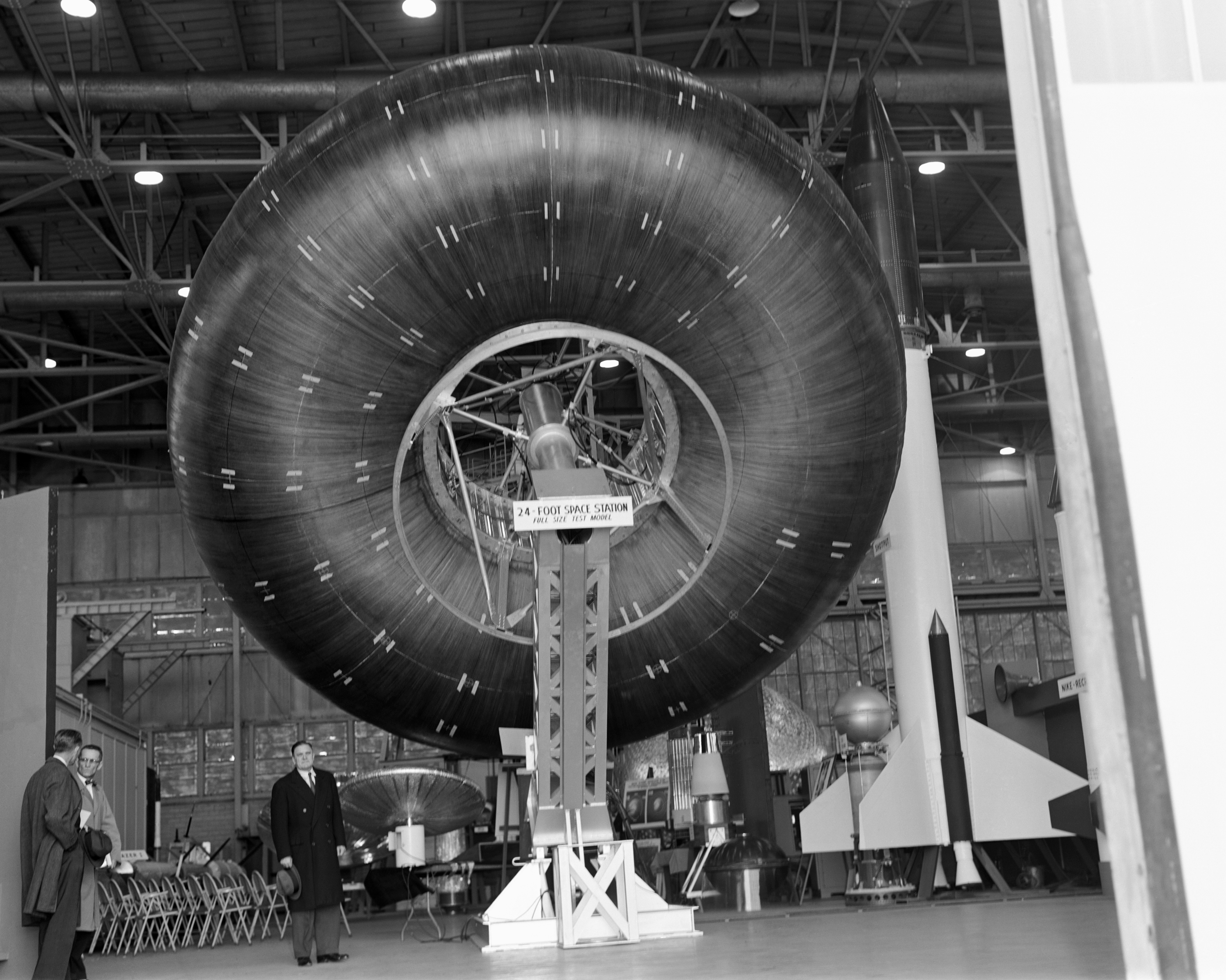 A model of an inflatable space station concept with a solar power system collector in 1961. It was 24 feet in diameter with internal fabric bulkhead which could be separately pressurized in an emergency.